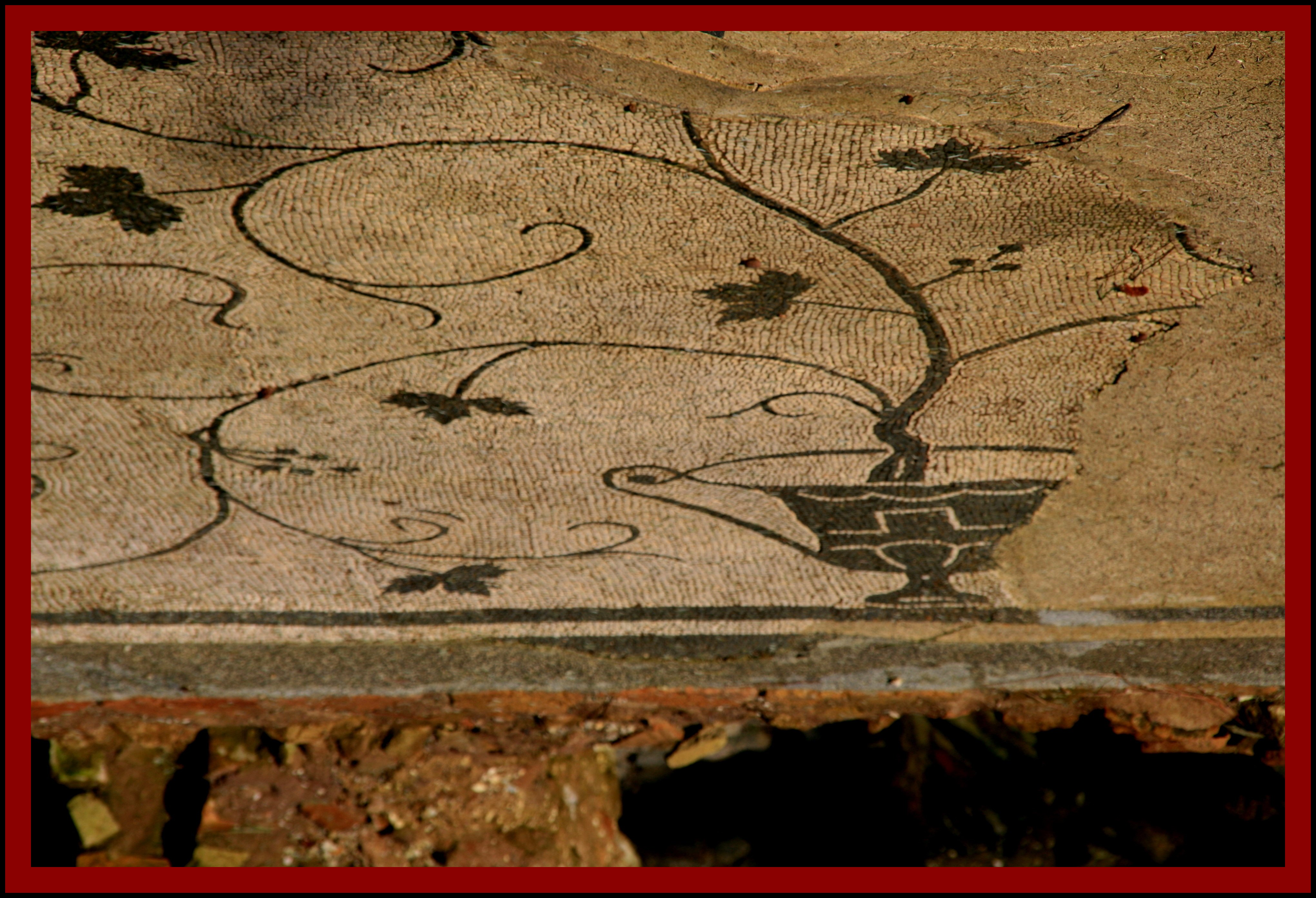 Mosaic at the Roman baths at Capo di Bove, Via Appia Antica 222, Rome Italy